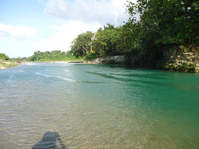 Foto tomada en balneario del Río Yasica ubicado en Las Espinas, Jamao al Norte, Espaillat, R.D.